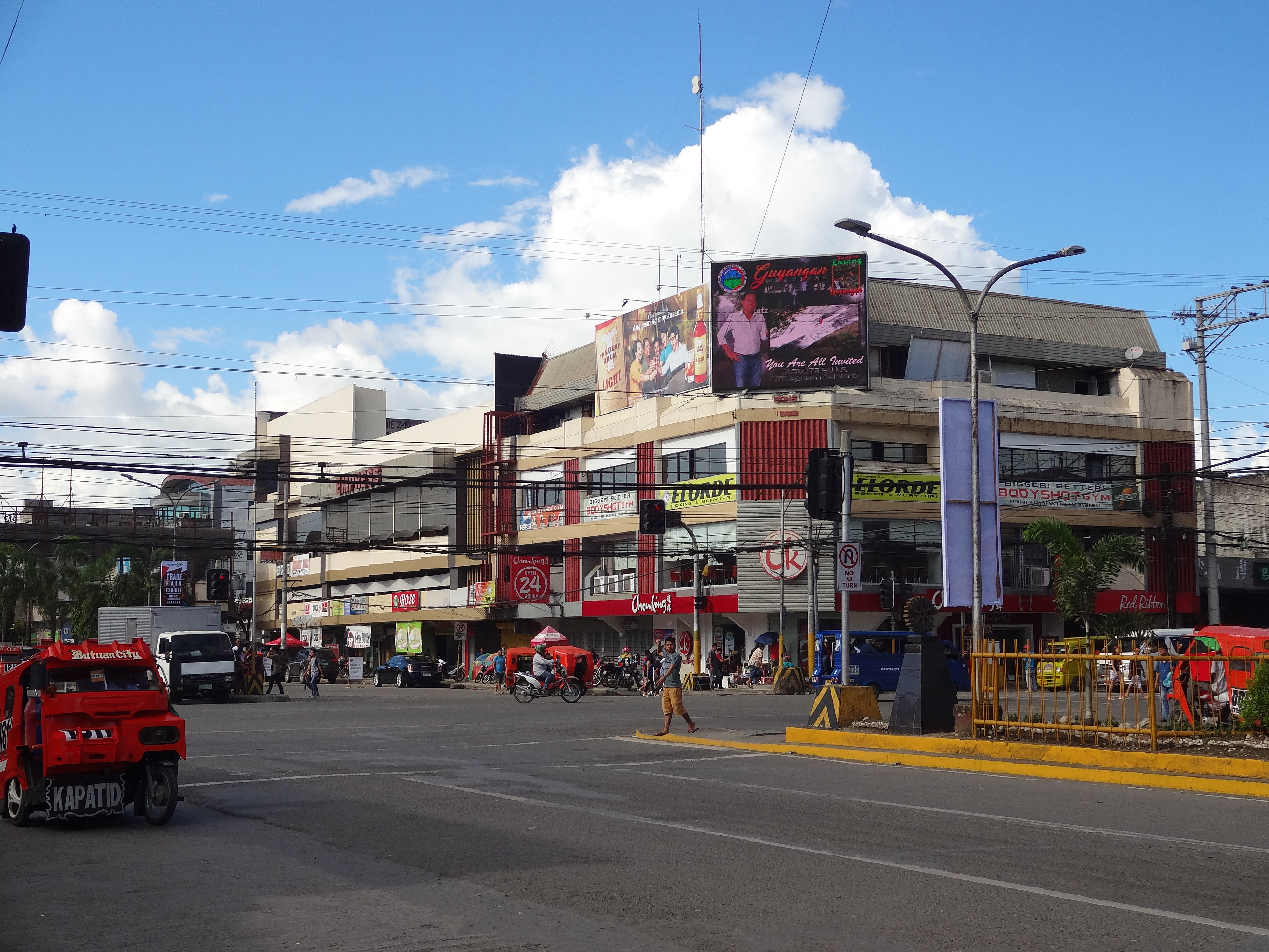 This is my own work. The Downtown Butuan has an LED at the Bee TV Building in the center of Butuan Downtown.